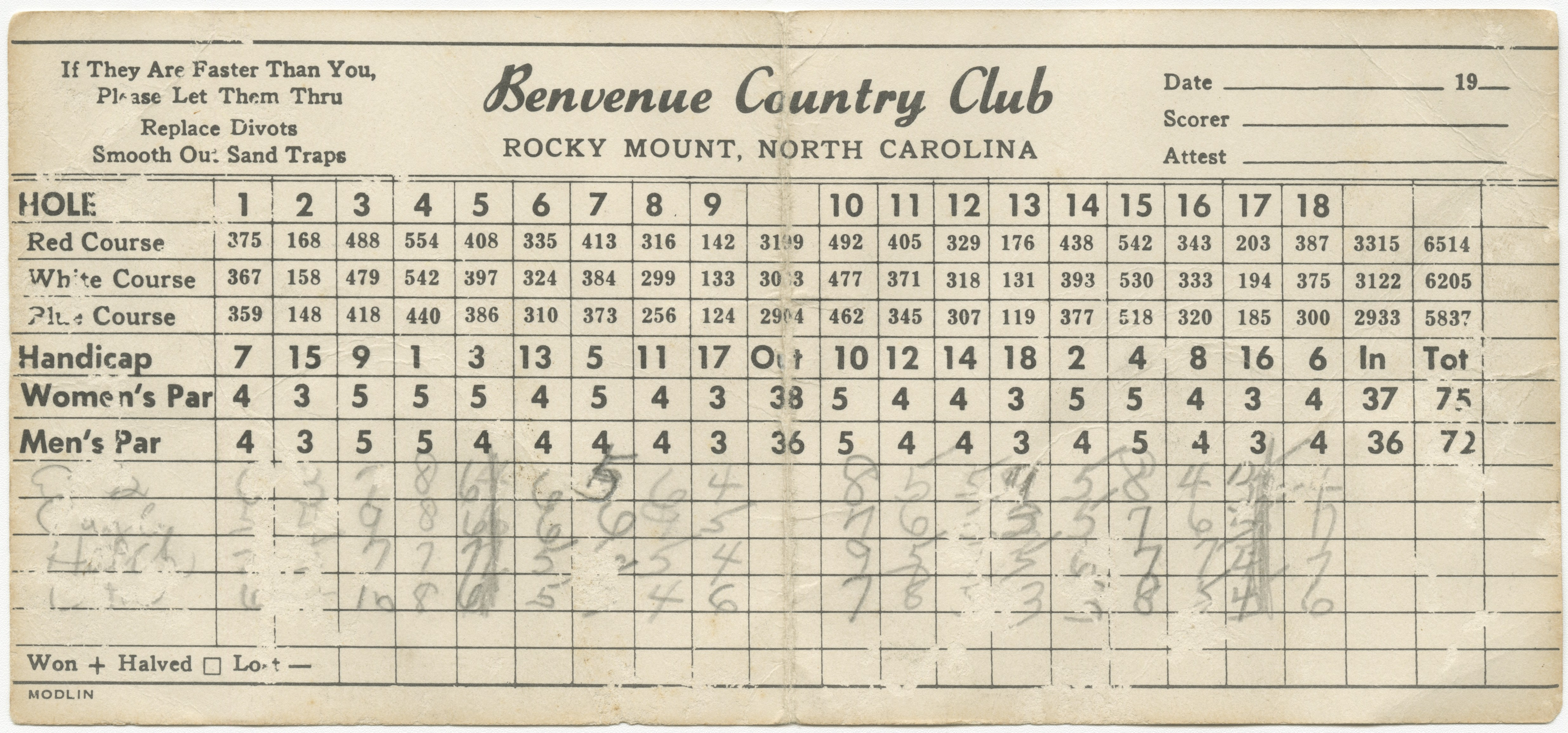 A score card from a round of golf at the Benvenue Country Club in Rocky Mount, North Carolina. It states the local rules and the scores of 4 players.